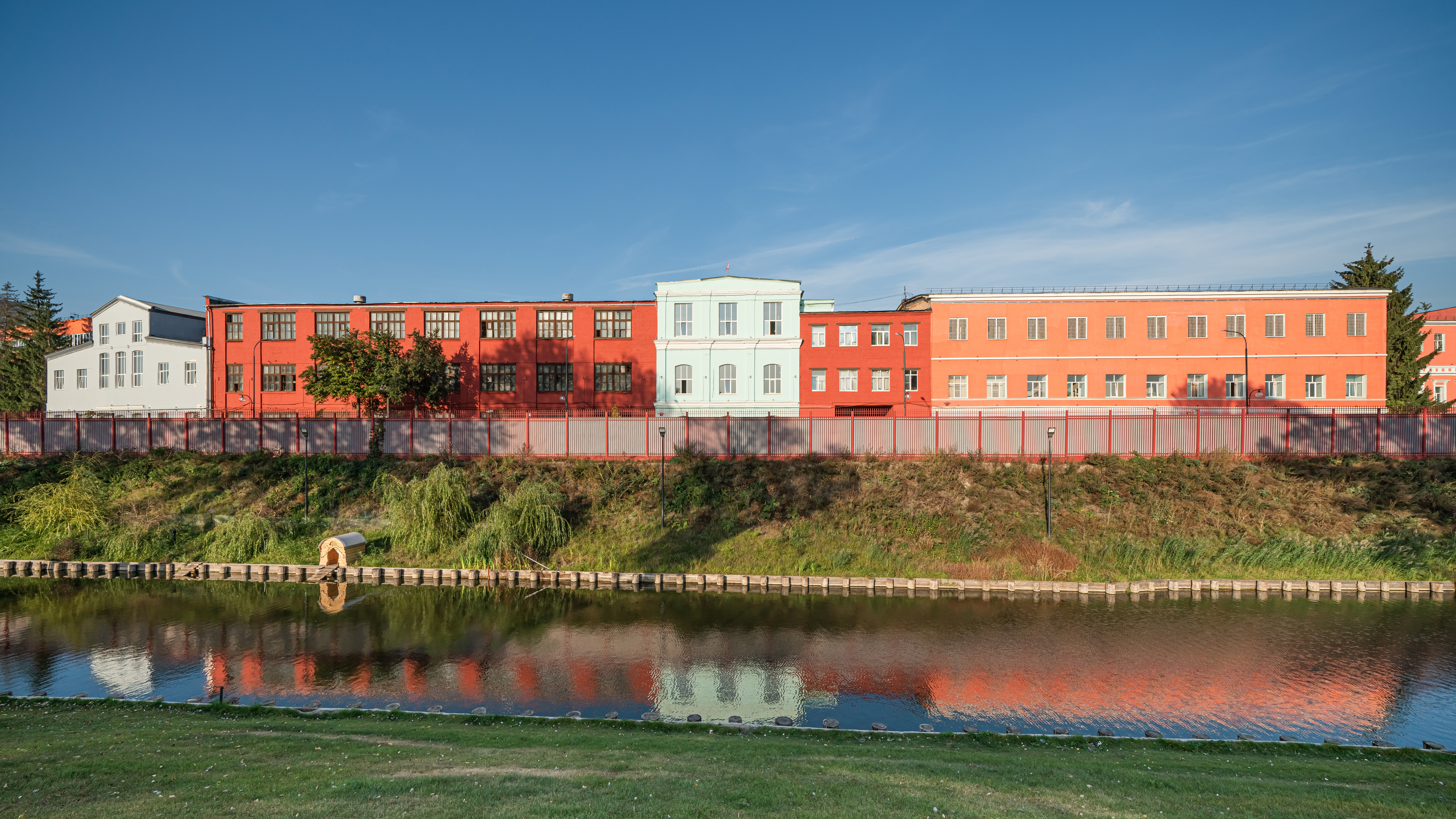 View of the Arms Plant (TOZ) from Kazanskaya Embankment in Tula, Russia